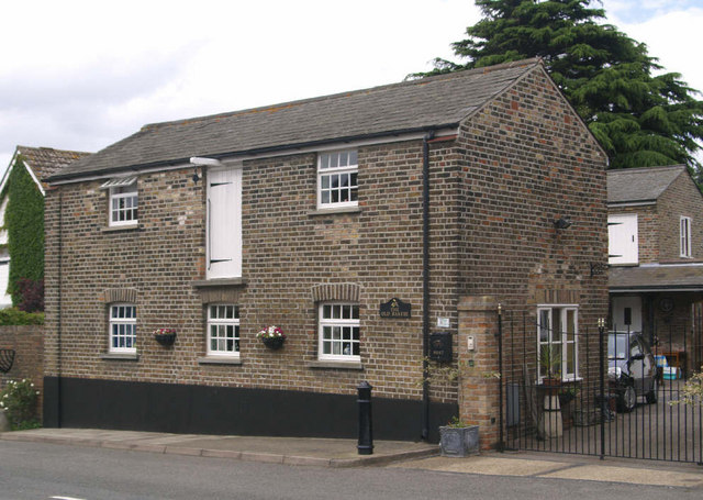 The Old Bakery, Orsett Situated on east side of Rectory Road. Still has a loft hatch and hoist.